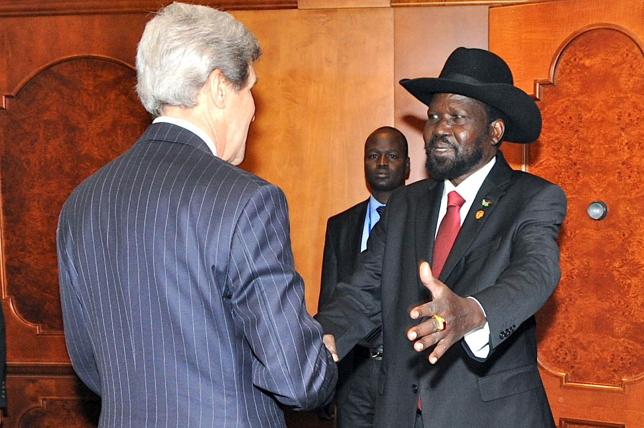 U.S. Secretary of State John Kerry meets with South Sudan President Salva Kiir before the conclusion of the 50th anniversary African Union Summit in Addis Ababa, Ethiopia, on May 26, 2013. [State Department photo/ Public Domain]